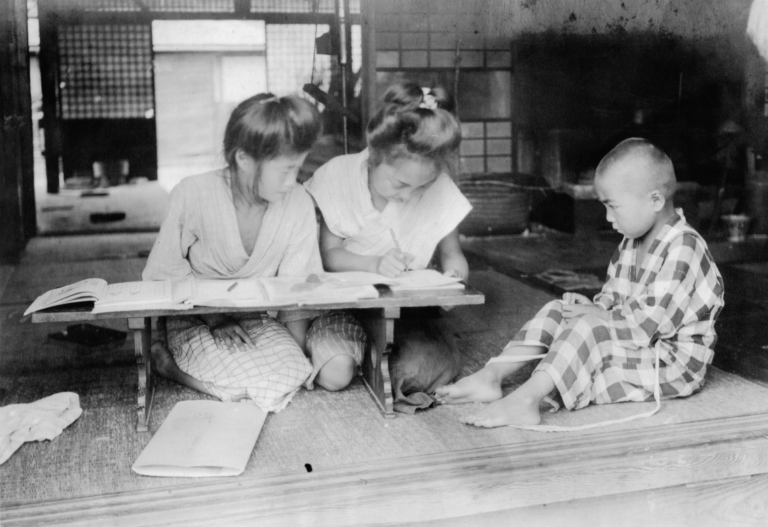 My spouse's uncle Elstner Hilton took this photo in Japan between 1914 and 1918.